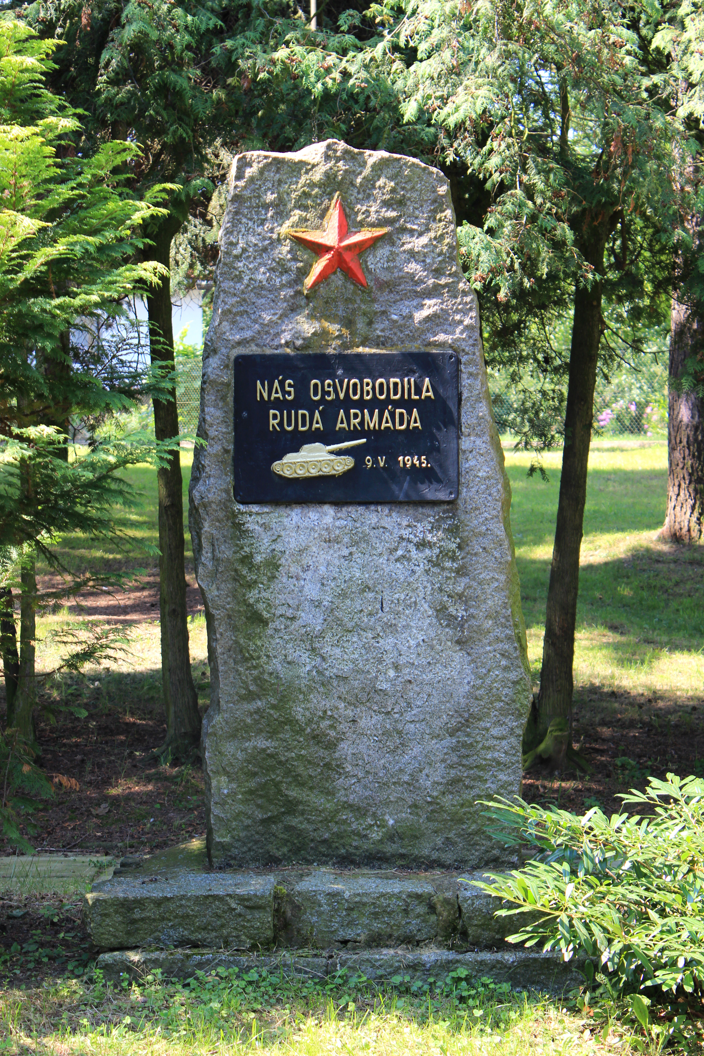 World War II memorial in Záluží, part of Čelákovice, Czech Republic